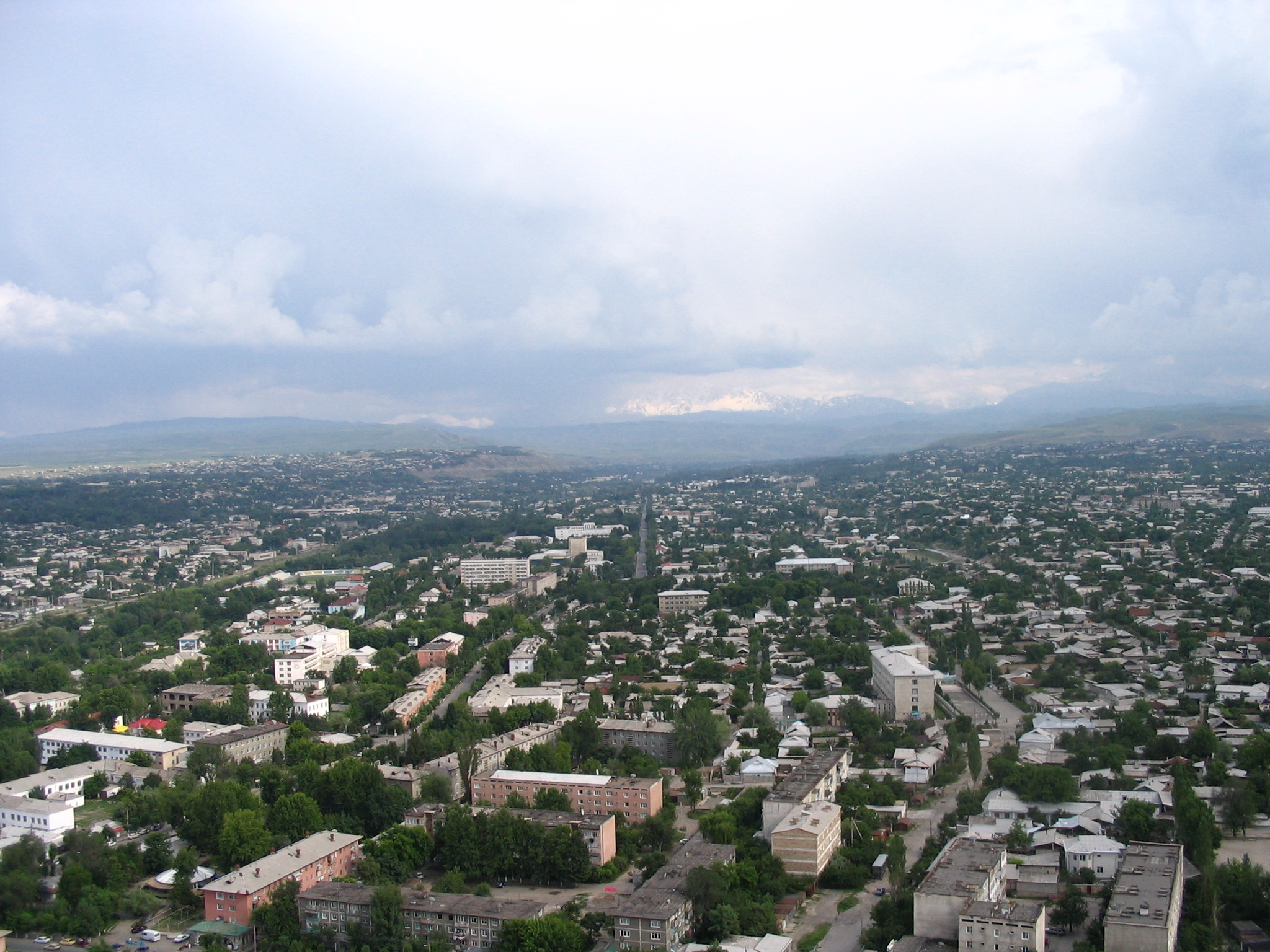 Around Osh